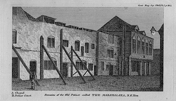 The old Marshalsea prison, image published in Gentleman's Magazine, September 1803. Source: Tufts University Archives. [1]